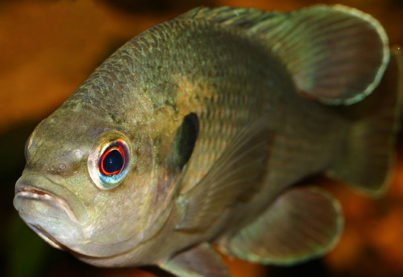 Readspotted sunfish (Lepomis miniatus)